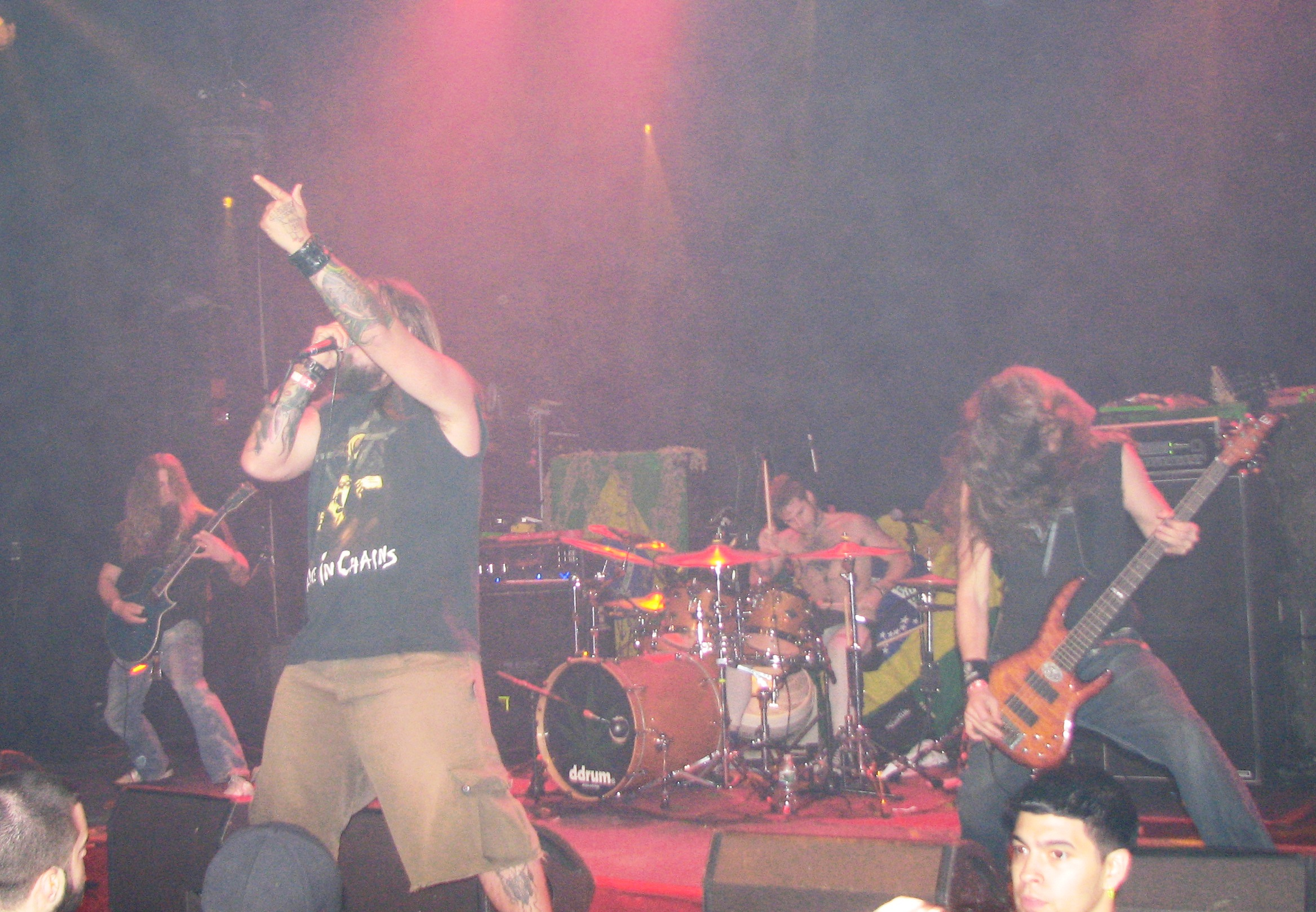 Bleed the Sky performing live at the Blender Theater at Gramercy on Friday, November 14th, 2008